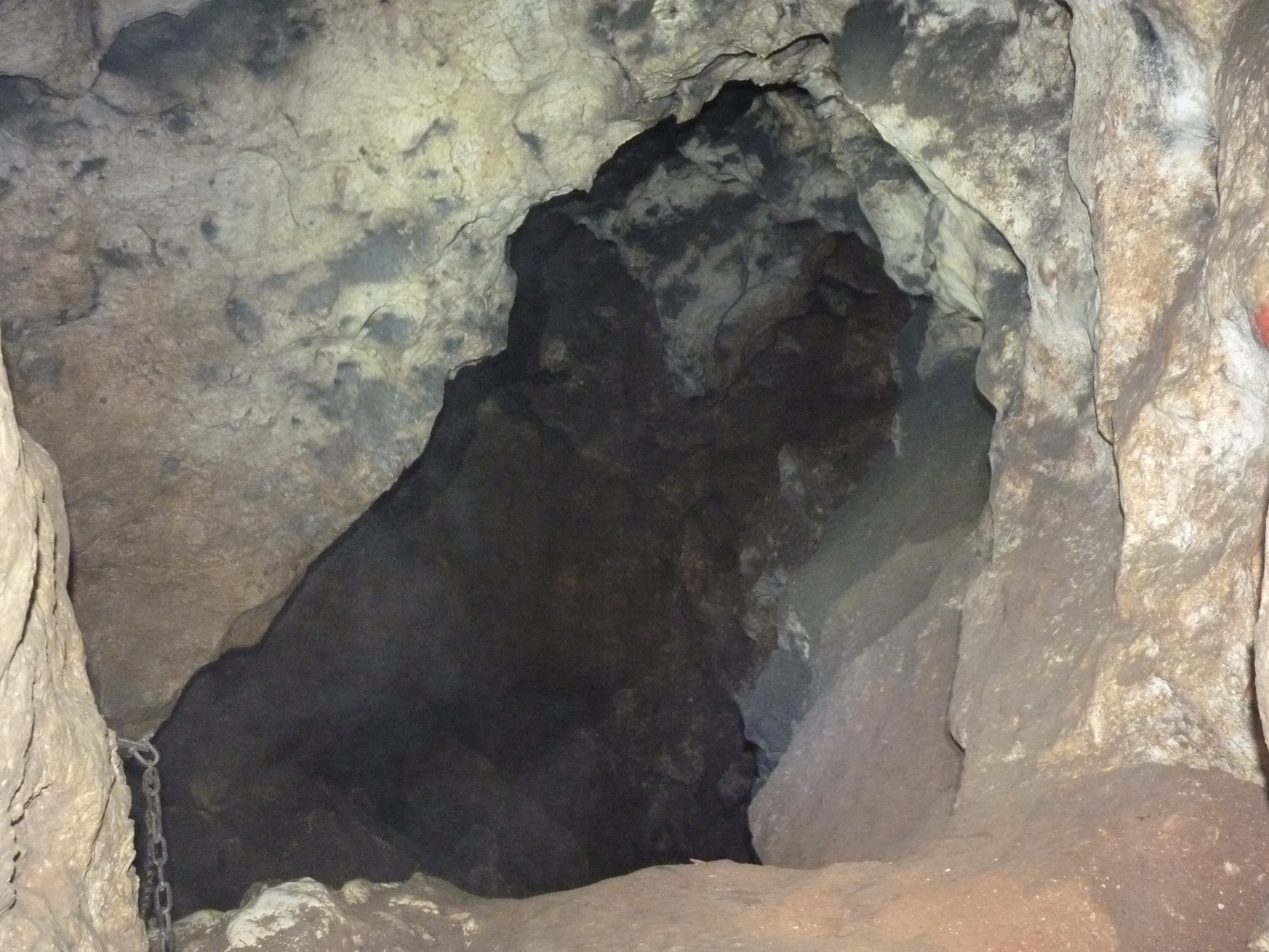 Solymár Cave: passage seen from the Circus (Cirkusz)